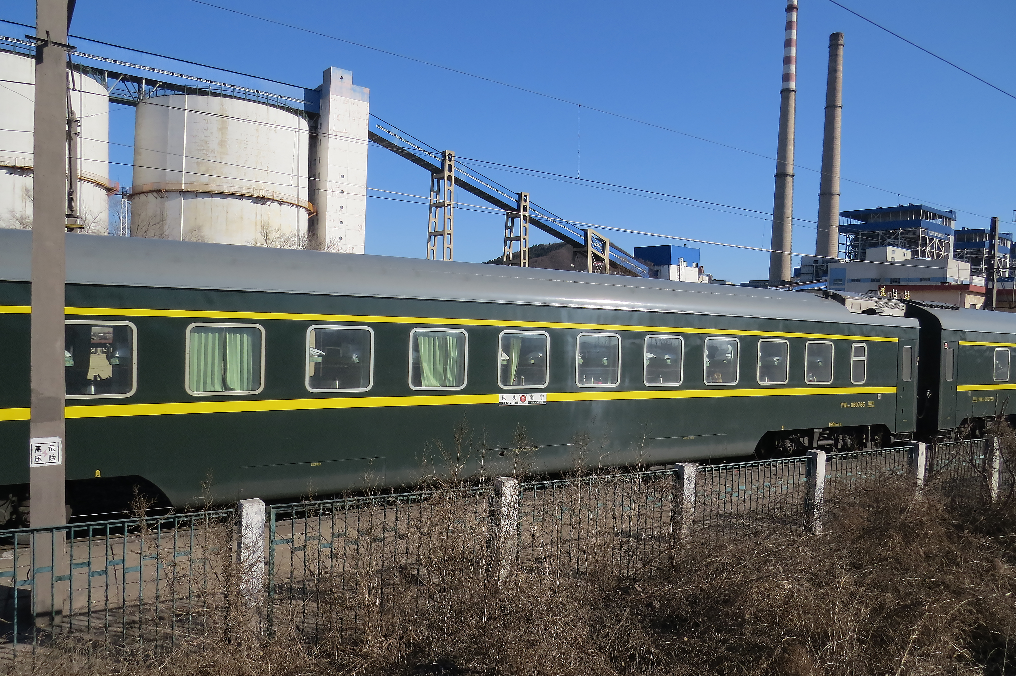 Z337 from Nanning to Baotou. Lunch time comes when the train passes this former industrial station.